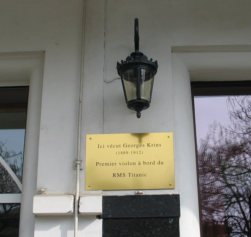 Plaque on a house in Spa (Belgium): here lived Georges Krins, first violinist on board of RMS Titanic. Licensing